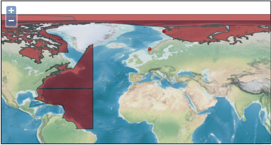 distribution of c.hyperboreus